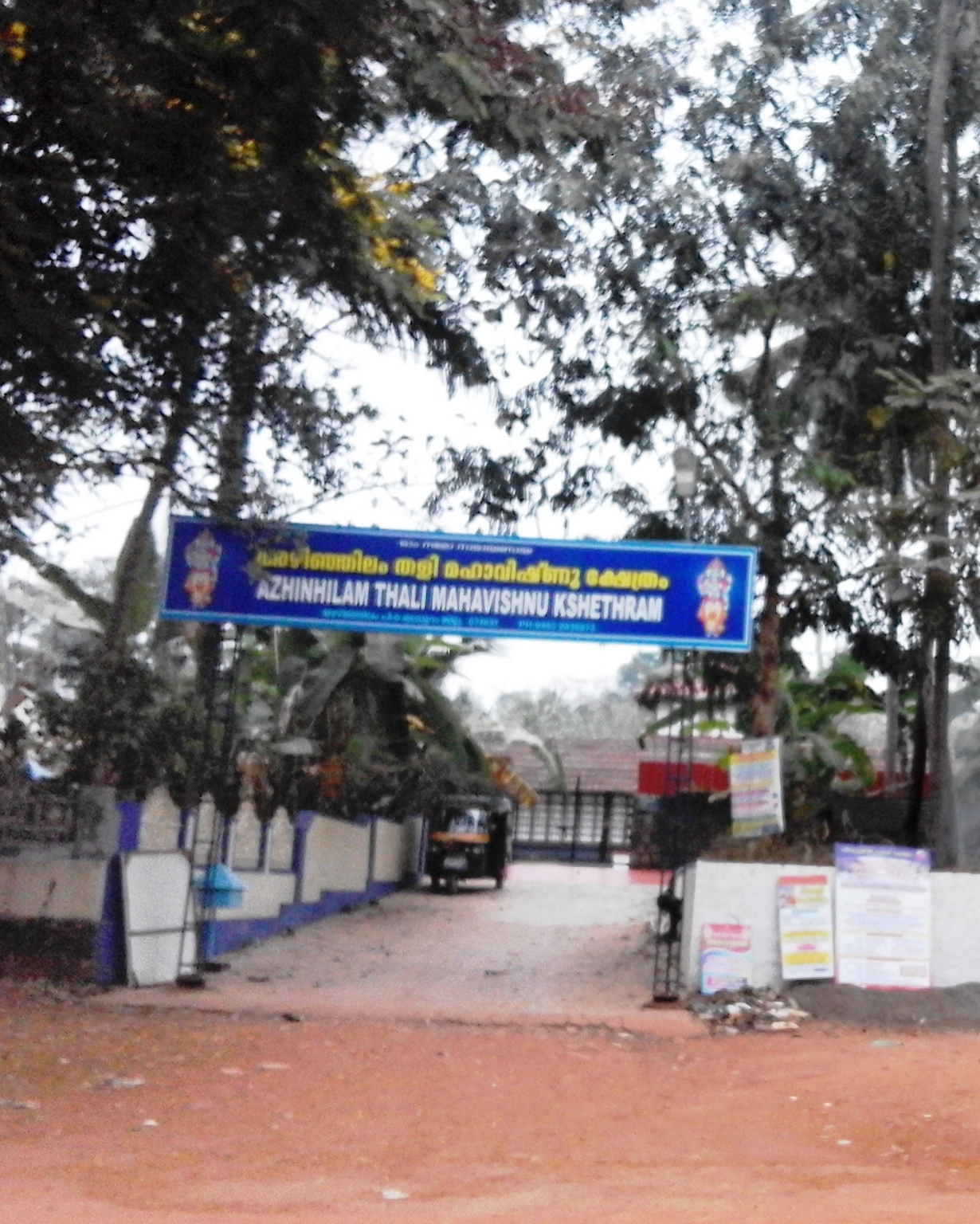 Azhinjilam, Ramanattukara, Kerala, India.